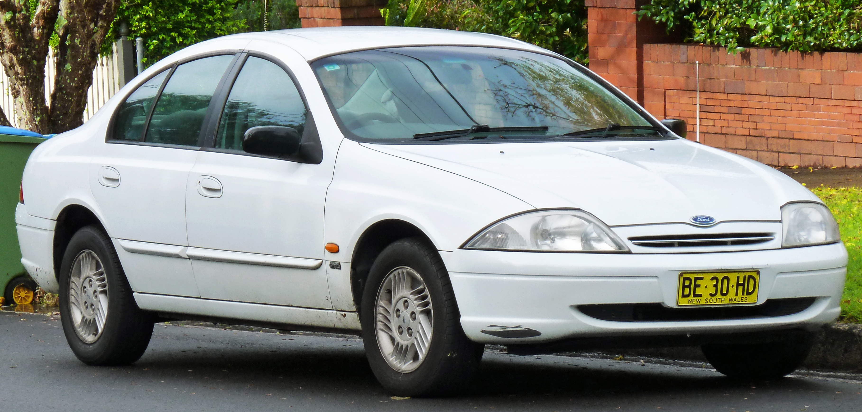 1999 Ford Falcon (AU) Futura sedan. Photographed in Killara, New South Wales, Australia.